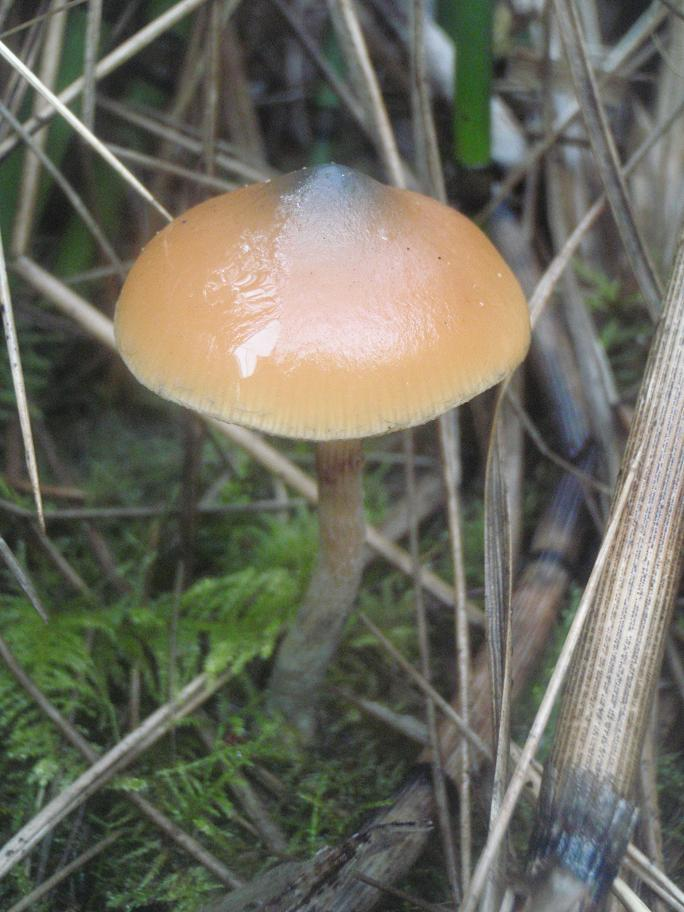 Psilocybe azurescens by Dan K. Pacific County, Washington, USA. 12/9/2008